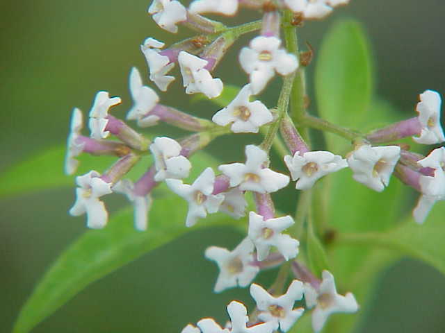 Species: Aloysia triphylla Family: Verbenaceae Image No. 1